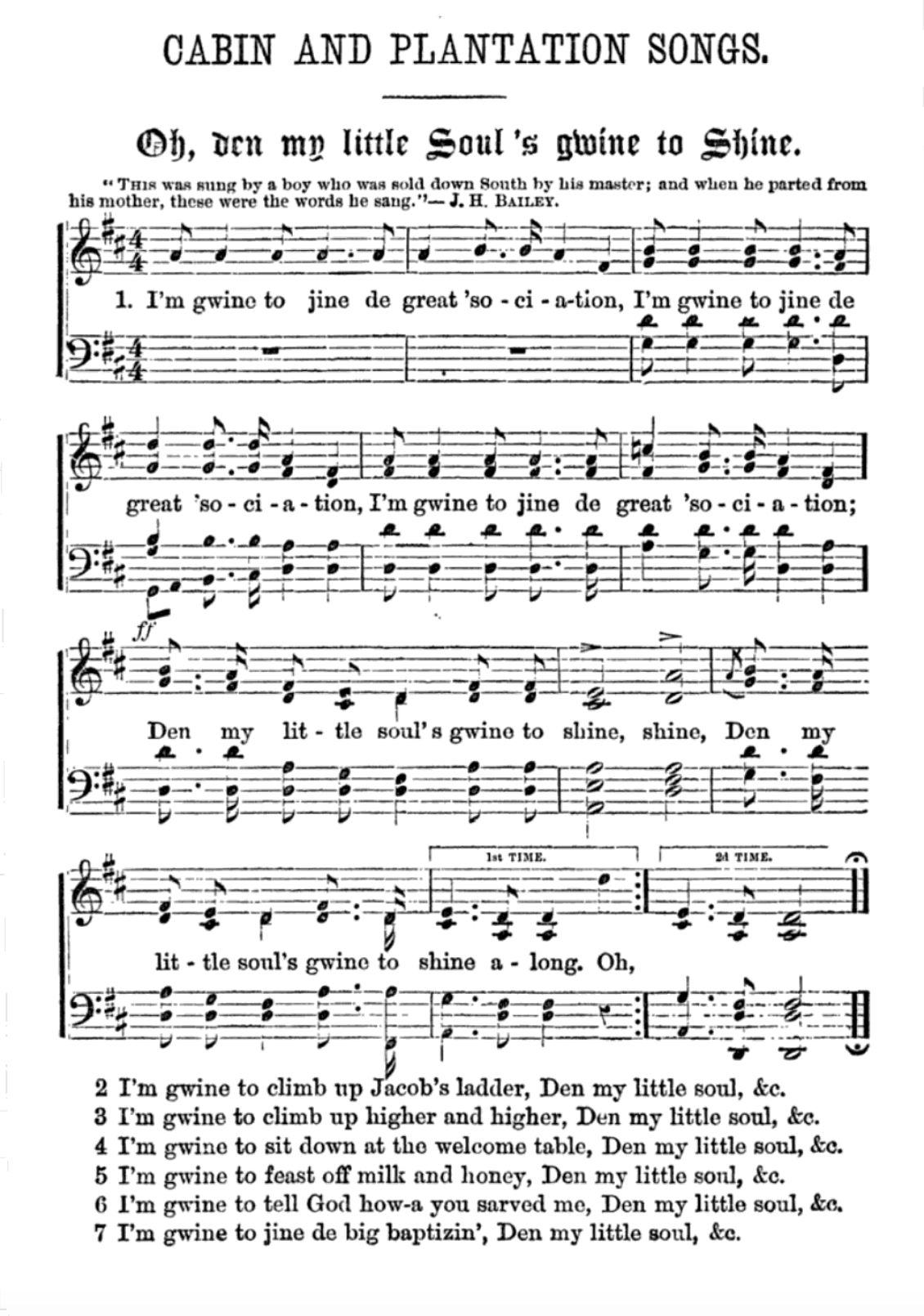 Early version of The Welcome Table song in "Hampton and Its Students" by Mary Frances Armstrong, Helen Wilhelmina Ludlow (1874) p. 173